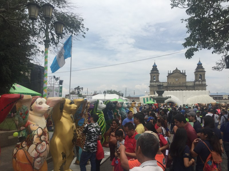 United Buddy Bears in Guatemala City